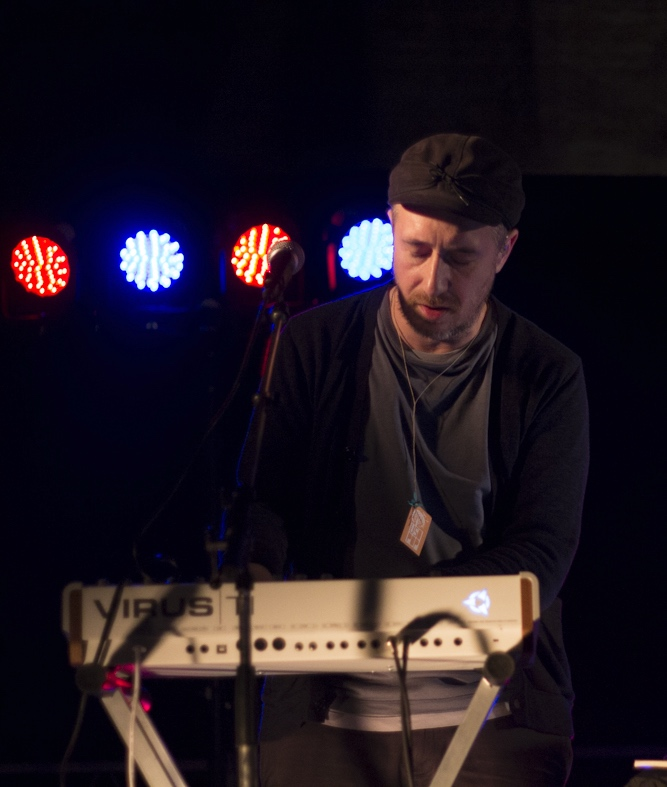 Sebastien Schuller at Usopop Festival